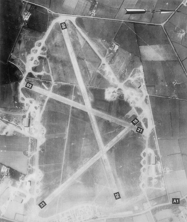 Aerial photograph of Balderton Airfield, England.